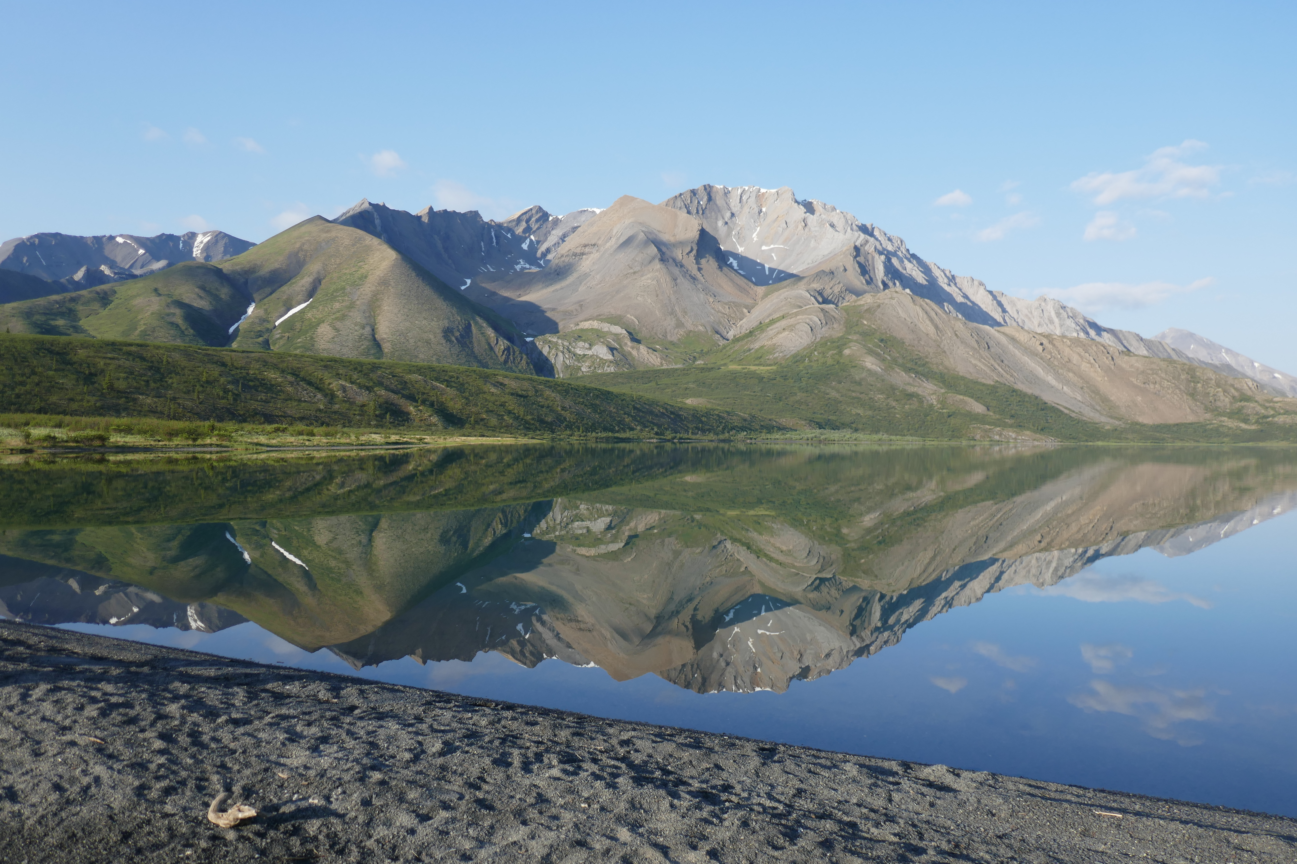 Nı́onep'eneɂ Tue (Backbone Lake, formerly Grizzly Bear Lake) in Nááts'įhch'oh National Park backcountry, Northwest Territories, Canada